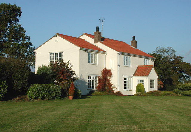 Belby Cottage, Belby, East Riding of Yorkshire, England.Cottage at the southeastern end of Lumby Lane - the bridleway between Thorpe Road and Main Road near Belby Hall, east of Howden.